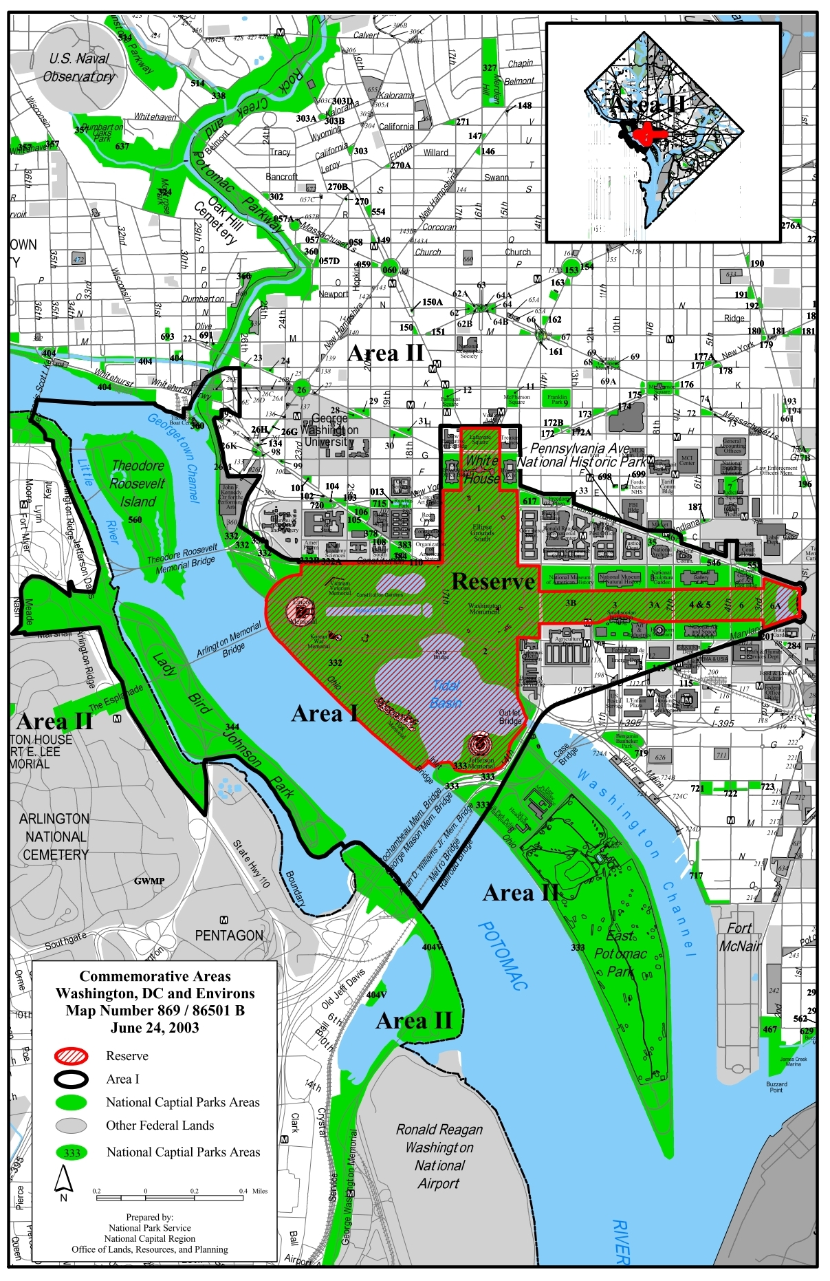 Map Number 869/86501 of Washington, D.C., and its environs produced by the National Park Service of the U.S. Department of the Interior. This map shows the three areas used by the U.S. Commission of Fine Arts, U.S. National Capital Memorial Advisory Commission, U.S. National Capital Planning Commission, and U.S. National Park Service to site commemorative works in the D.C. metropolitan area. The map is referenced by the "National Capital Memorials and Commemorative Works Act" (past of the "Act to revise, codify, and enact without substantive change certain general and permanent laws, related to public buildings, property, and works, as title 40, United States Code, 'Public Buildings, Property, and Works'", 2001, P.L. 107-217) and the "Commemorative Works Clarification and Revision Act" (part of the "Vietnam Veterans Memorial Visitor Center Act of 2003", P.L. 108-126 (